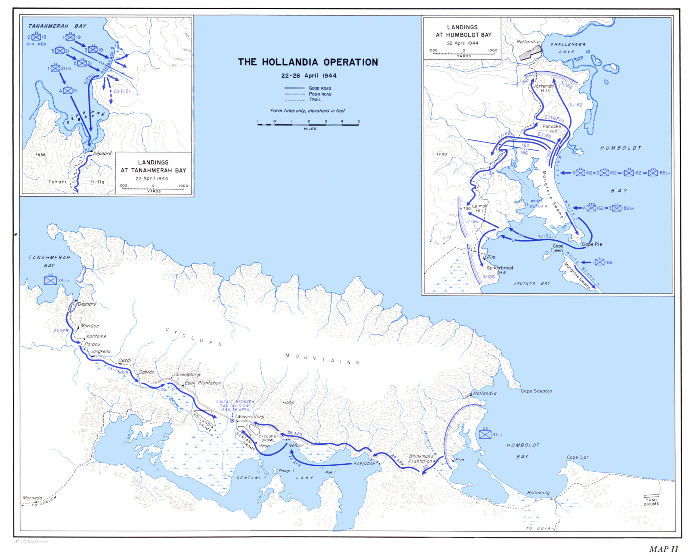 The Hollandia Operation (Operation Reckless) 22nd to 26th April 1944